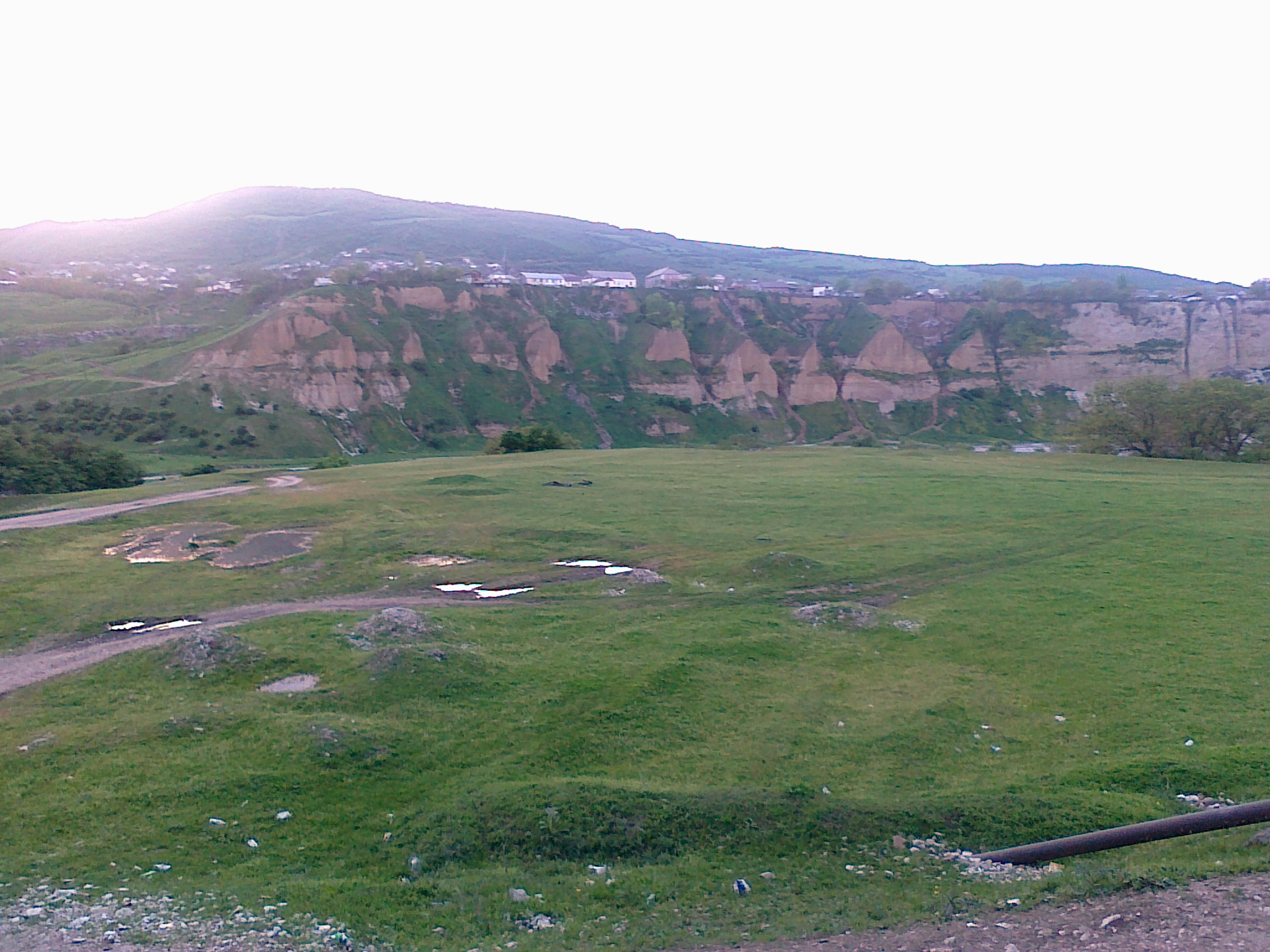 View of the village Aktash-Auh